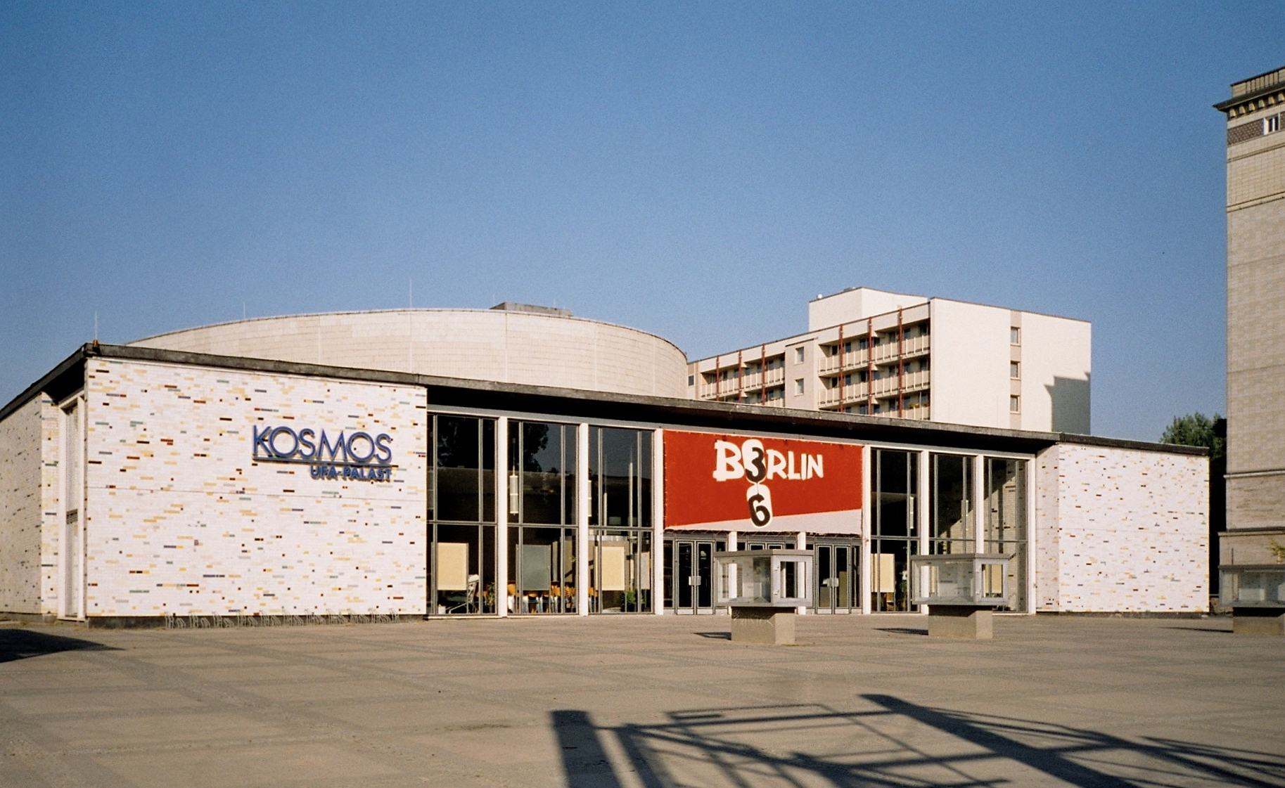 Description: View of Kino Kosmos on Karl-Marx-Allee, in Berlin-Friedrichshain. It was designed by Josef Kaiser and constructed from 1960-1962 in the Funktionalismus style. Source: self-made. I release it into the public domain. Gryffindor 16:23, 10 April 2006 (UTC)